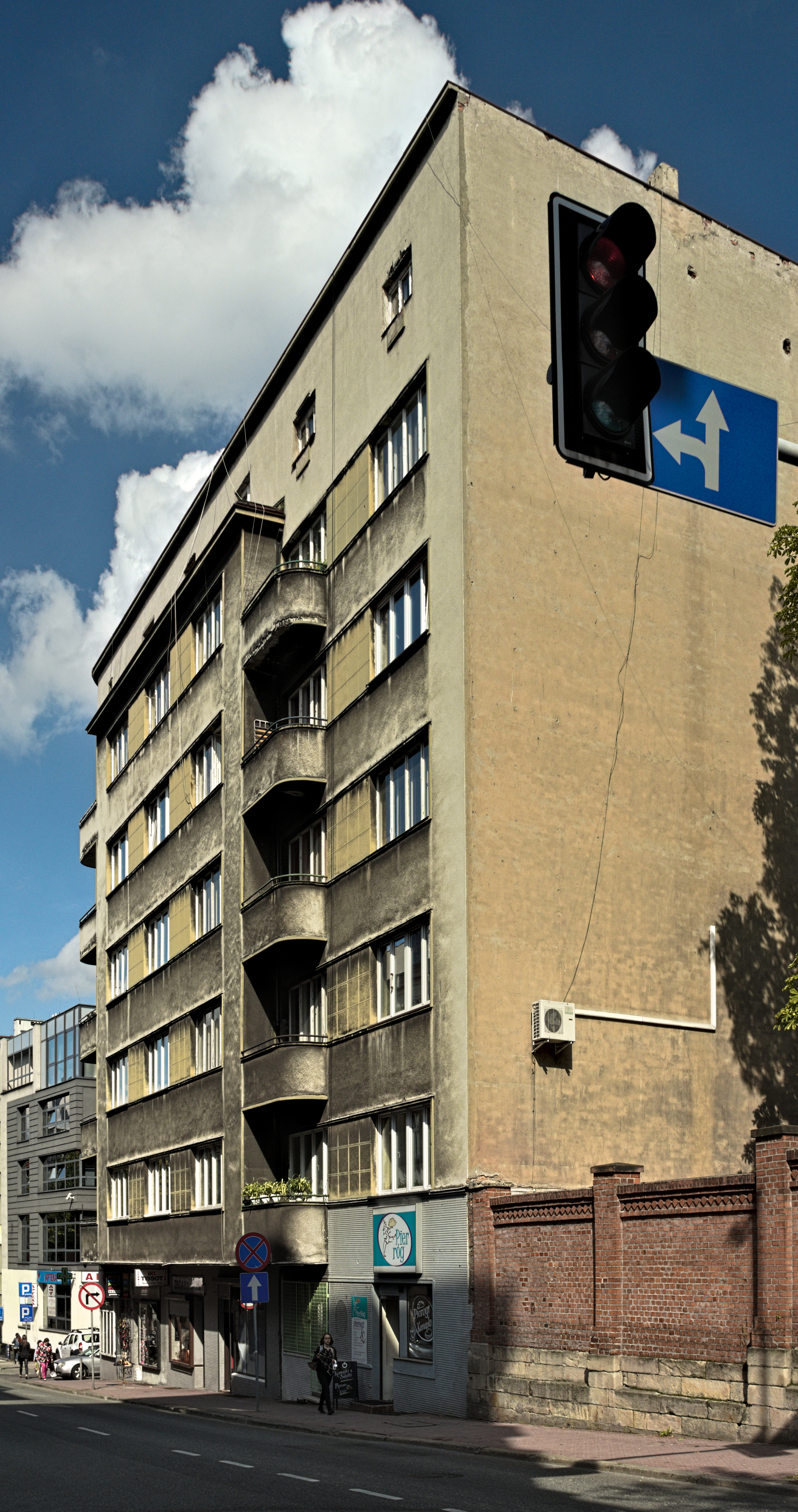 tenement house in Katowice, 1 Józefa Szafranka Street, Poland, view from Francuska Street